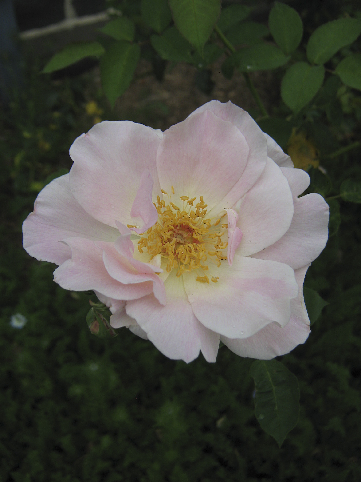 Rose 'Daydream', climber by Alister Clark 1925; photographed in the Alister Clark Memorial Rose Garden, Bulla, Victoria